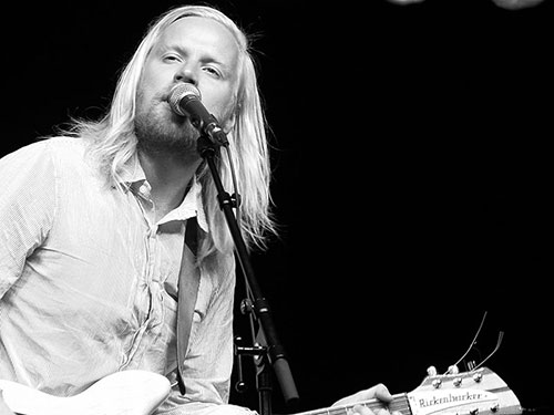 Hjaltalin @ Aarhus, Denmark (2009)